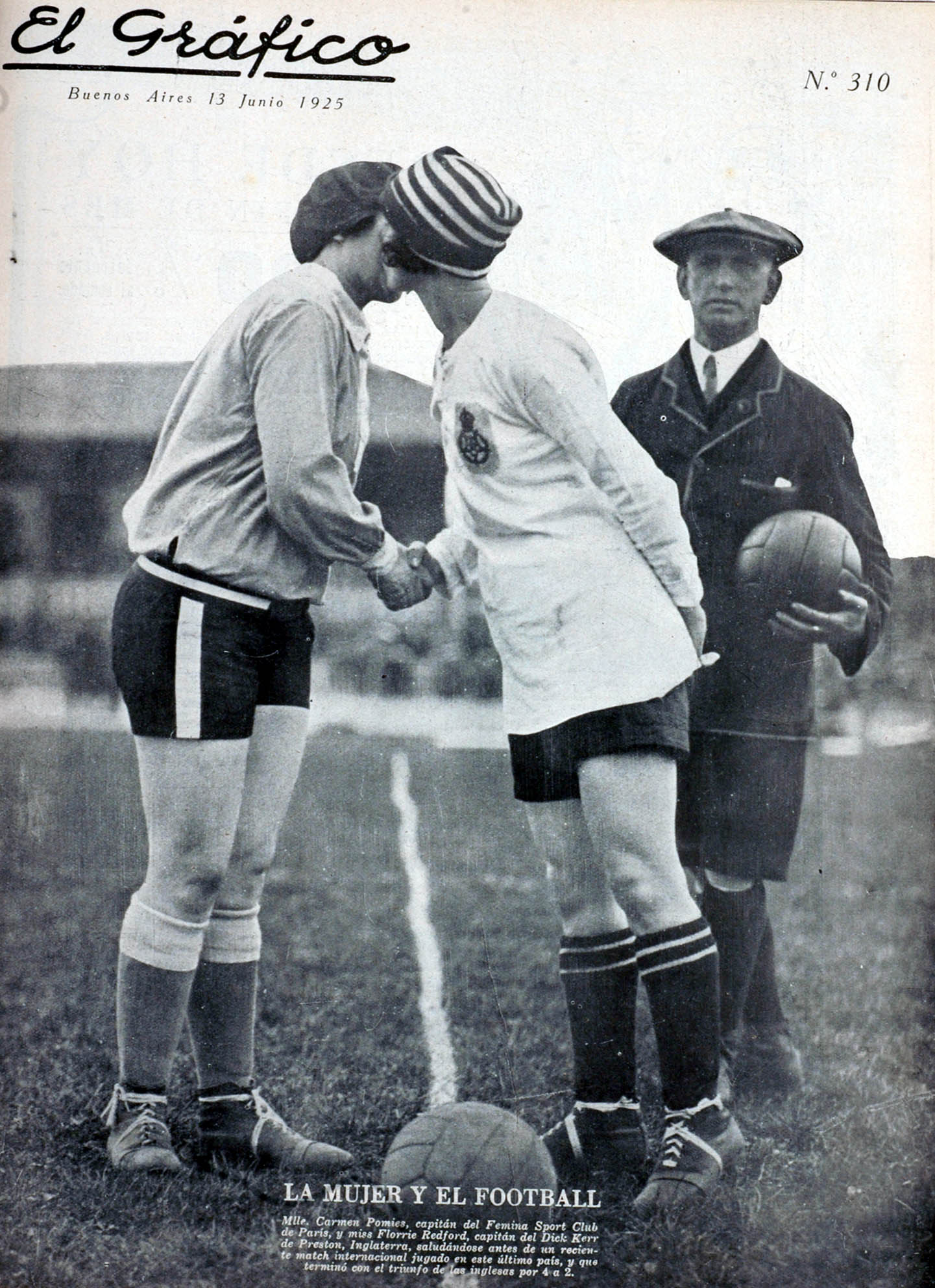 "La mujer y el football": captains Carmen Pomies (Femina SC of Paris, France) and Florrie Redford (Dick Kerr of Preston, England) greeting before a match. Women's association football.